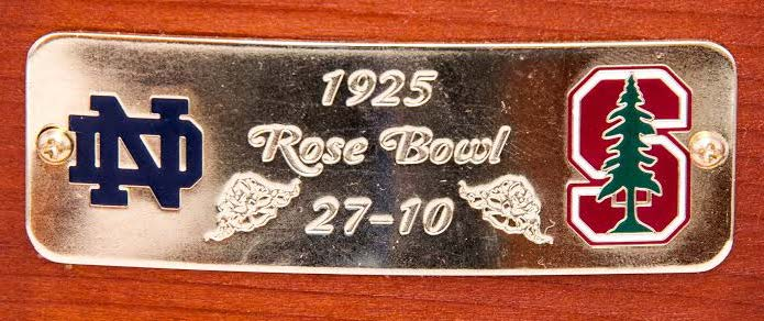 Newly designed game score plate, reduced in size to enable placement of more plates on the trophy without enlarging the base.